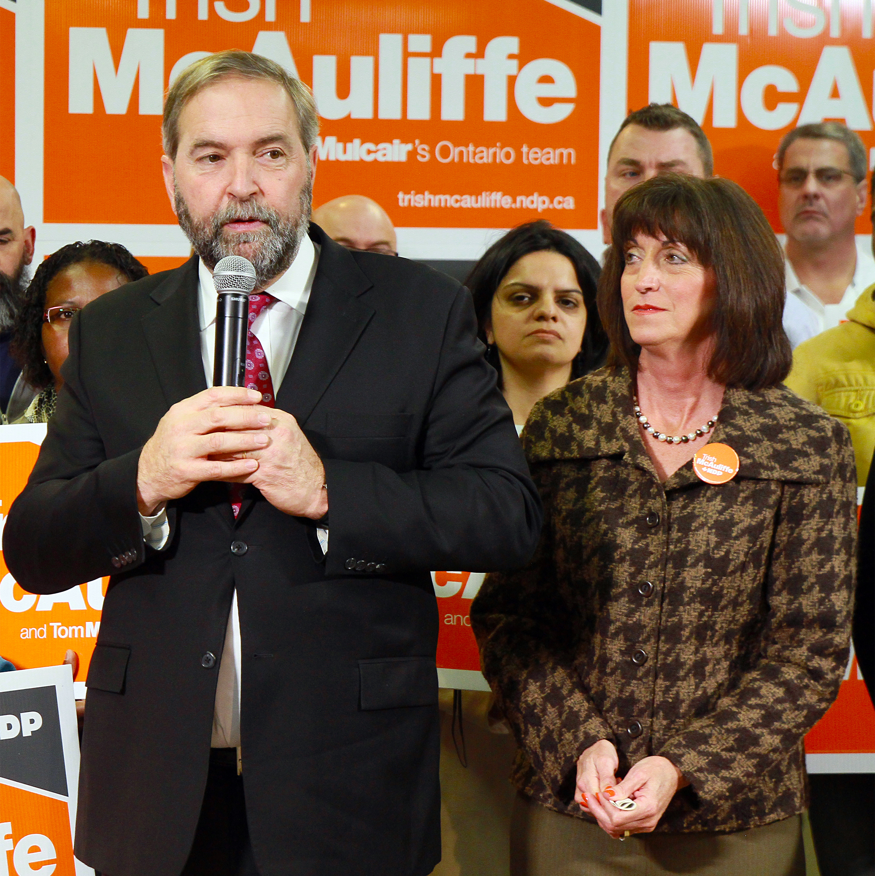 NDP leader Thomas Mulcair and his candidate for Whitby-Oshawa, Trish McAuliffe.